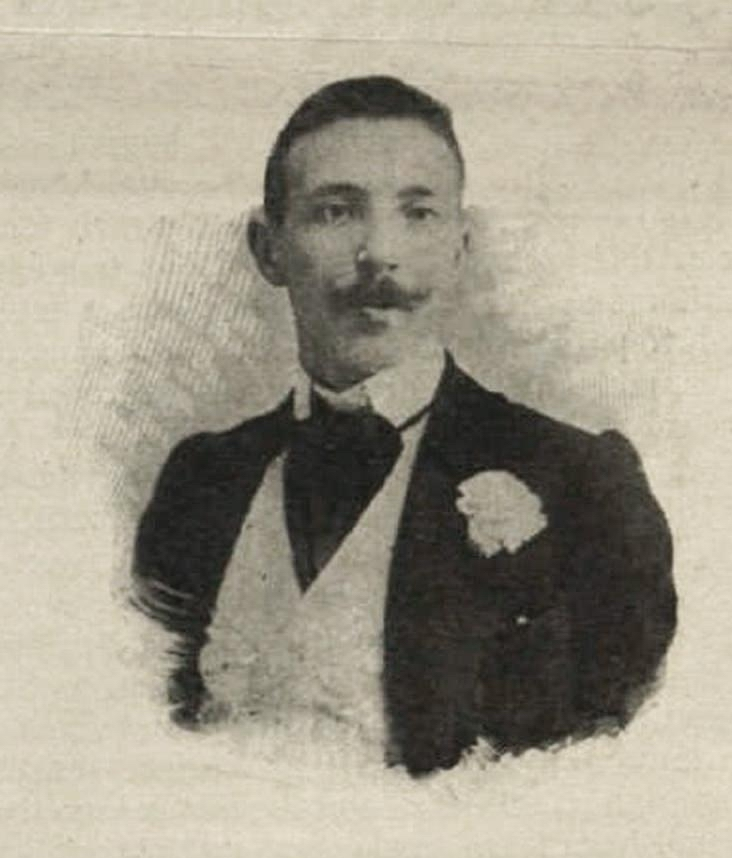 Miklós Ligeti